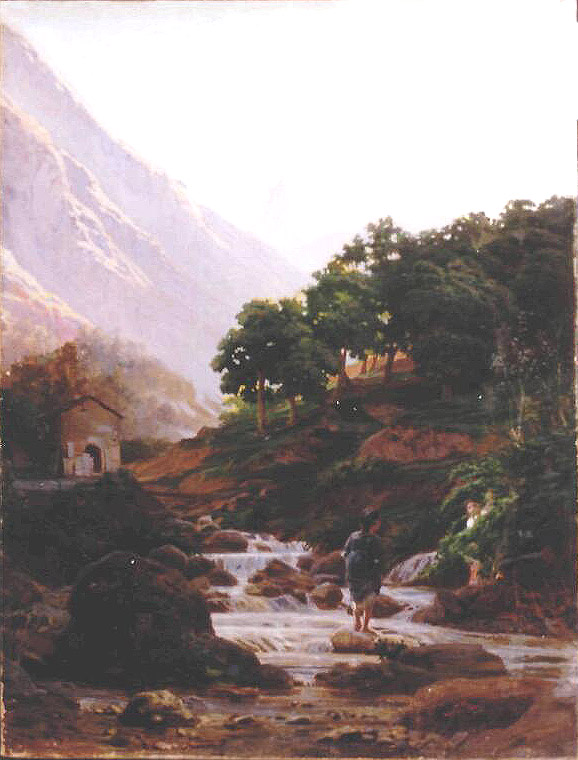 Painting Carrara by Nikolaj Nikolajewitsch Ge, collection of the Taganrog Museum of Art